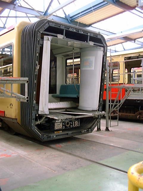 a split train in the Berlin S-Bahn depot Schöneweide